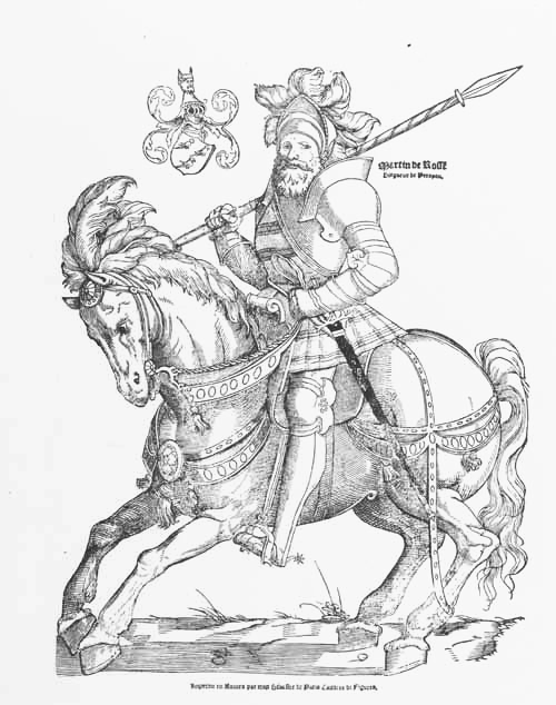 Woodcut of Maarten van Rossem (1478-1555), lord of Poederoyen in armour and full weapens at horse. Wit coat of Rossum (in mirror), printed by Silvstre de Paris taillier de Figures at Antwerpen, ca. 1545